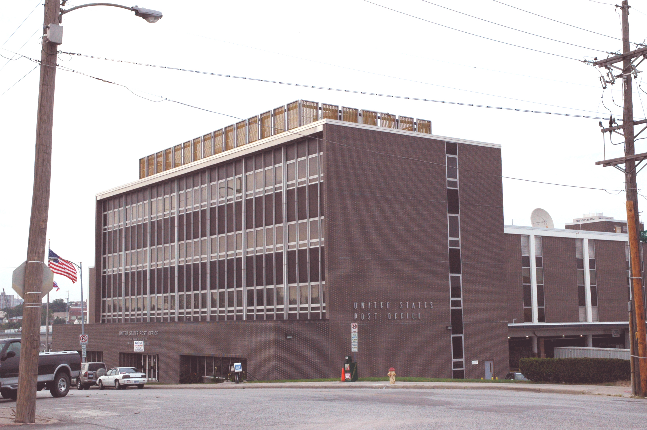 Main Post Office, Omaha, Nebraska.